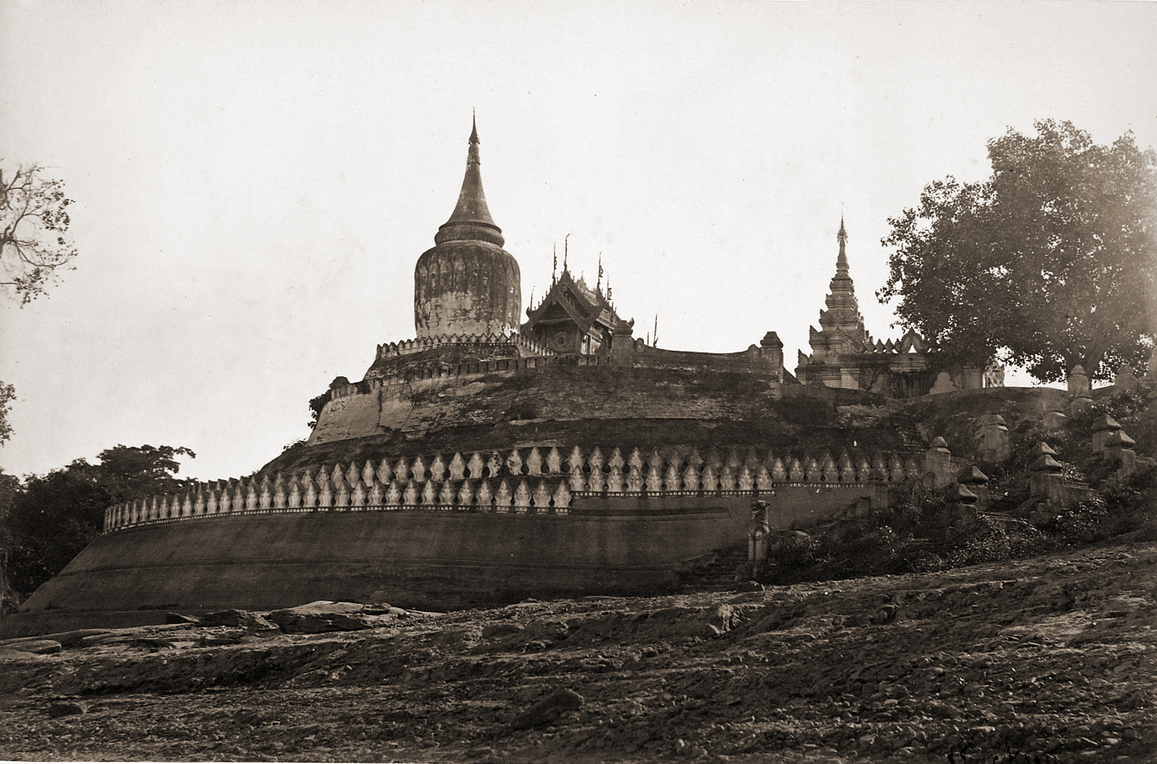 Pumpkin Pagoda [Bupaya Pagoda], Pagan, Upper Burma